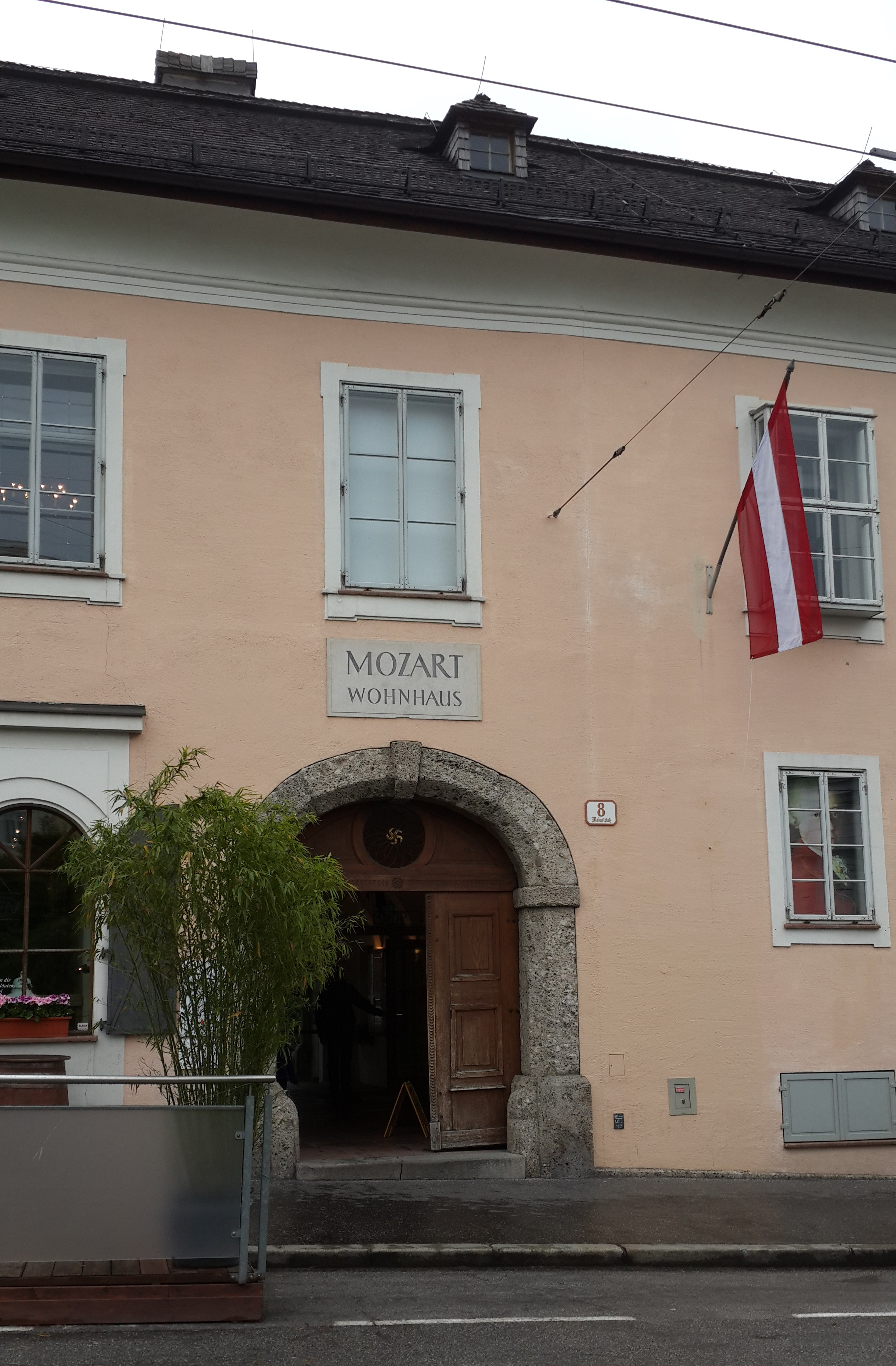 The Mozart family's home from 1773 in Salzburg and now a museum; known as Tanzmeisterhaus (dance master's house). Wolfgang lived there until 1781, and his father, Leopold, until his death in 1787.